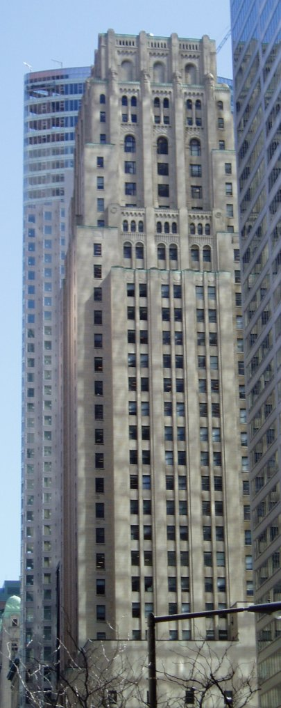 Taken by SimonP in April 2005